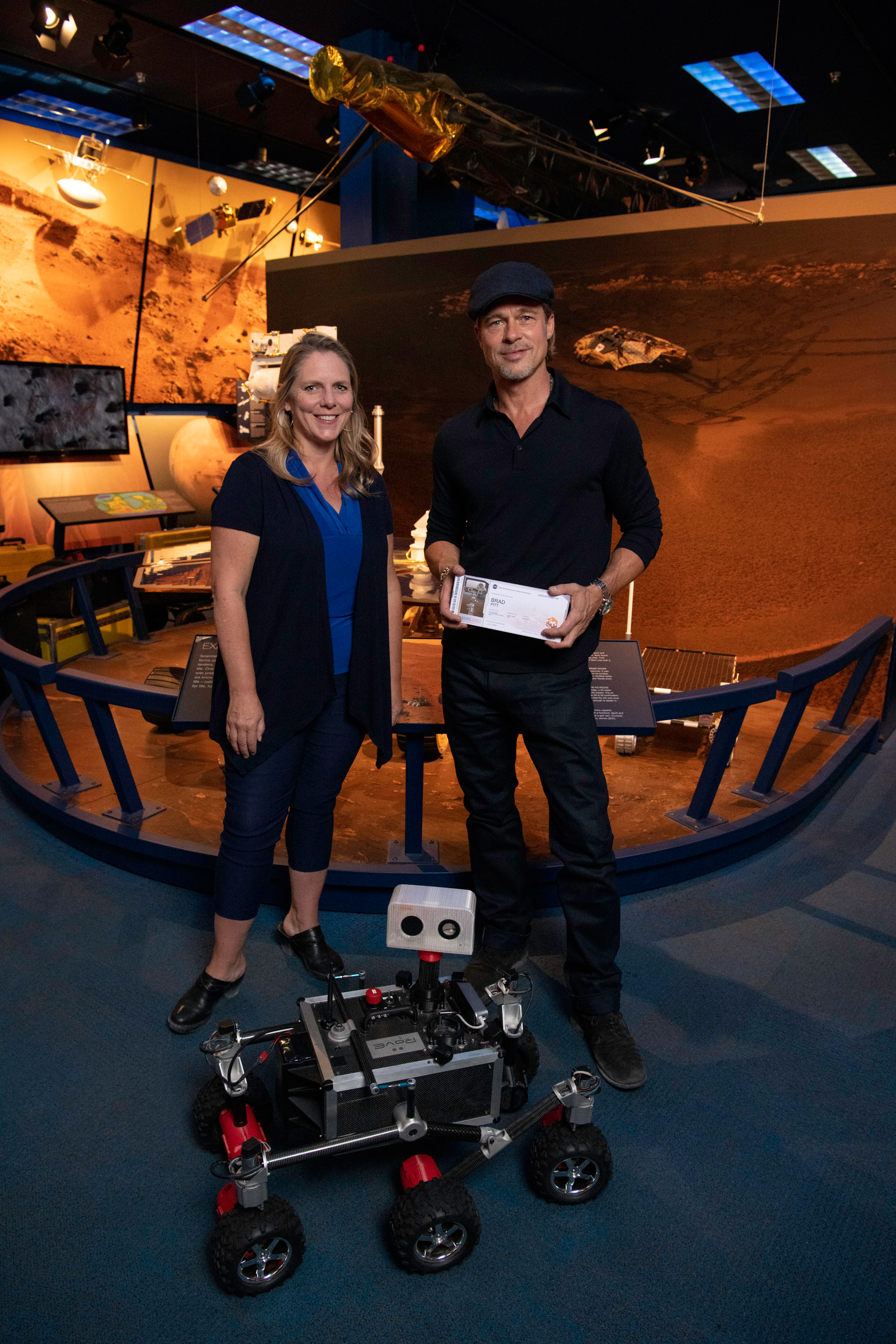 PIA23279: Send Your Name to Mars With Brad Pitt The actor Brad Pitt (right) shows off his "boarding pass" for Mars with Jennifer Trosper (left), the Mars 2020 project systems engineer and a veteran of several NASA Mars missions, at NASA's Jet Propulsion Laboratory in Pasadena, California, on Sept. 6, 2019. Members of the public can join the actor in sending their names to Mars aboard NASA's Mars 2020 rover at Names can be submitted until Sept. 30, 2019. Pitt visited JPL to learn about real space technology after filming his space-themed movie "Ad Astra." - Brad Pitt Visit Requesters: Jia-Rui Cook Photographer: R. Lannom Date: 06-SEPT-2019 Photolab order: IMCOPS/18.10.03.08